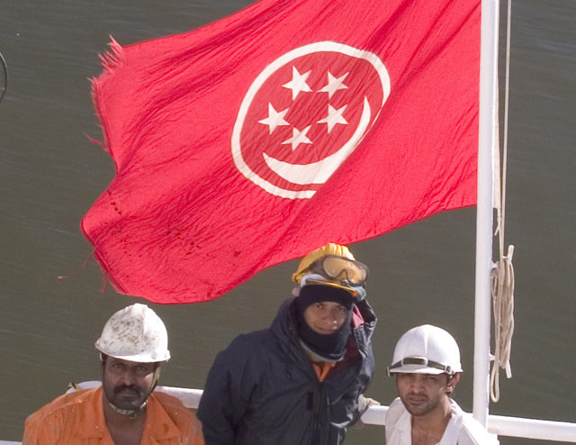 Members of a boat's crew standing in front of the Red Ensign of Singapore, the civil ensign used by privately-owned, non-military ships registered in Singapore, while their vessel was in Houston, Texas.